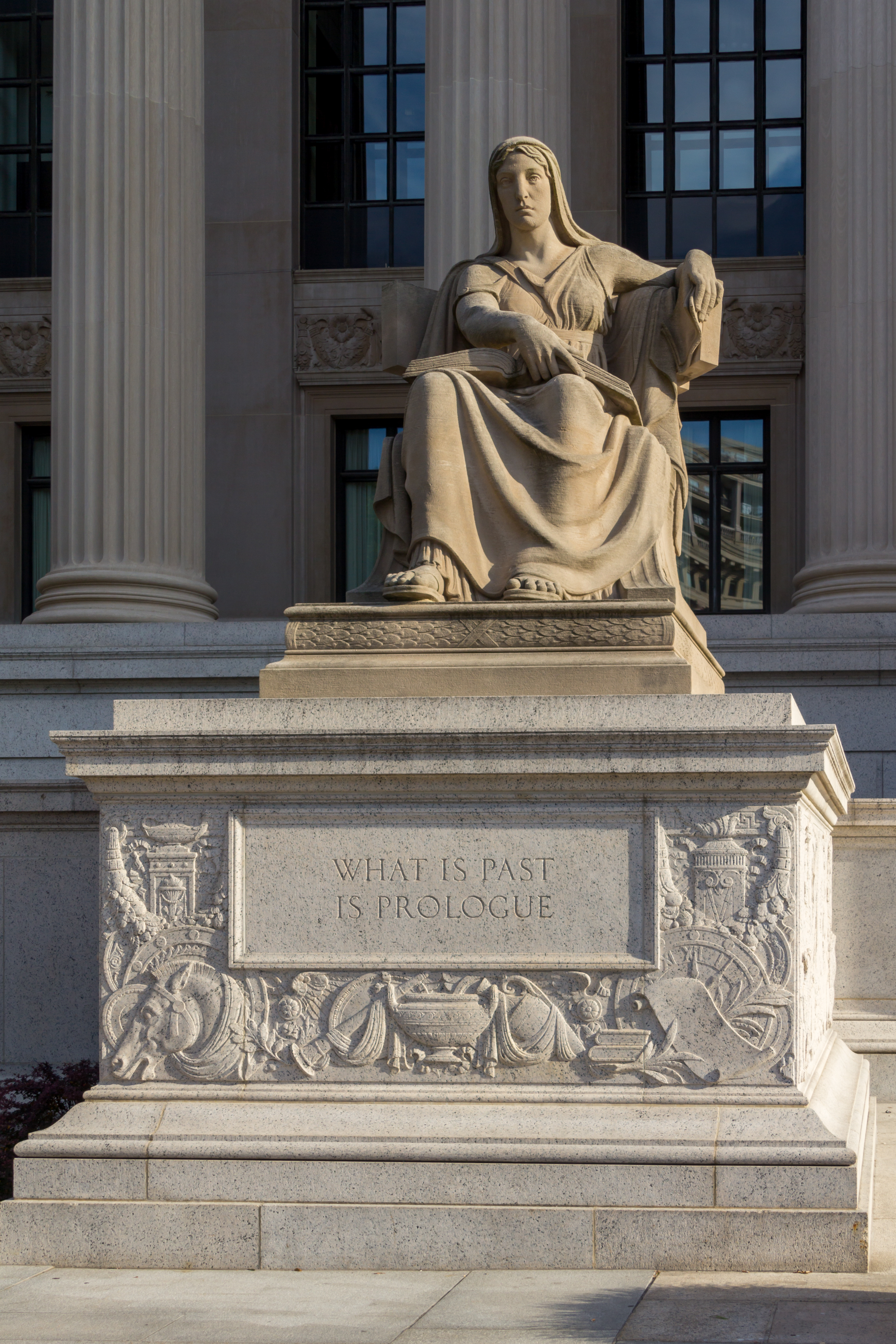 "What is Past is Prologue" statue, Washington, D.C.